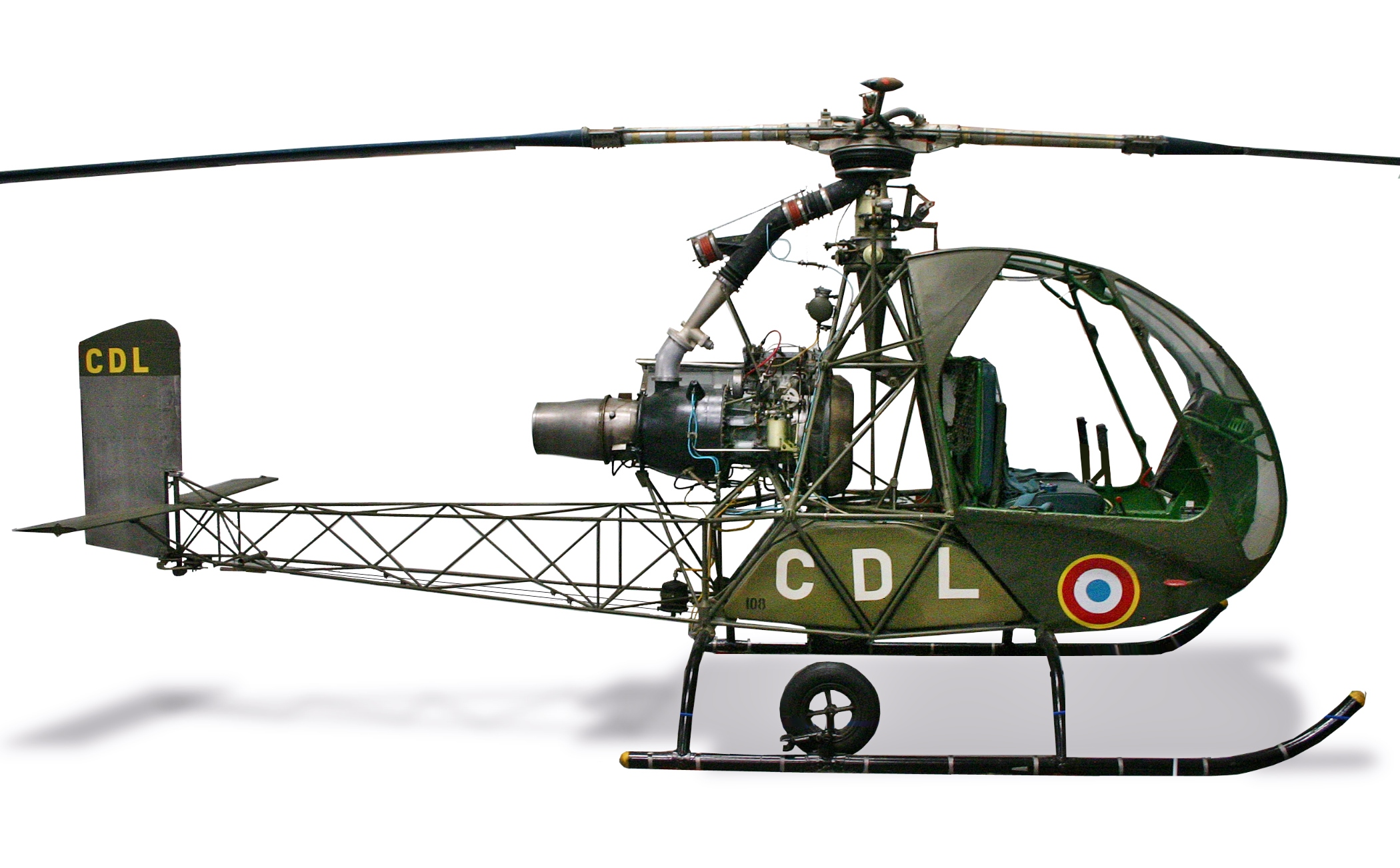 Sud-Ouest Djinn